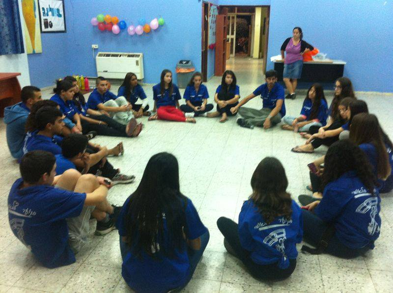 hadraha